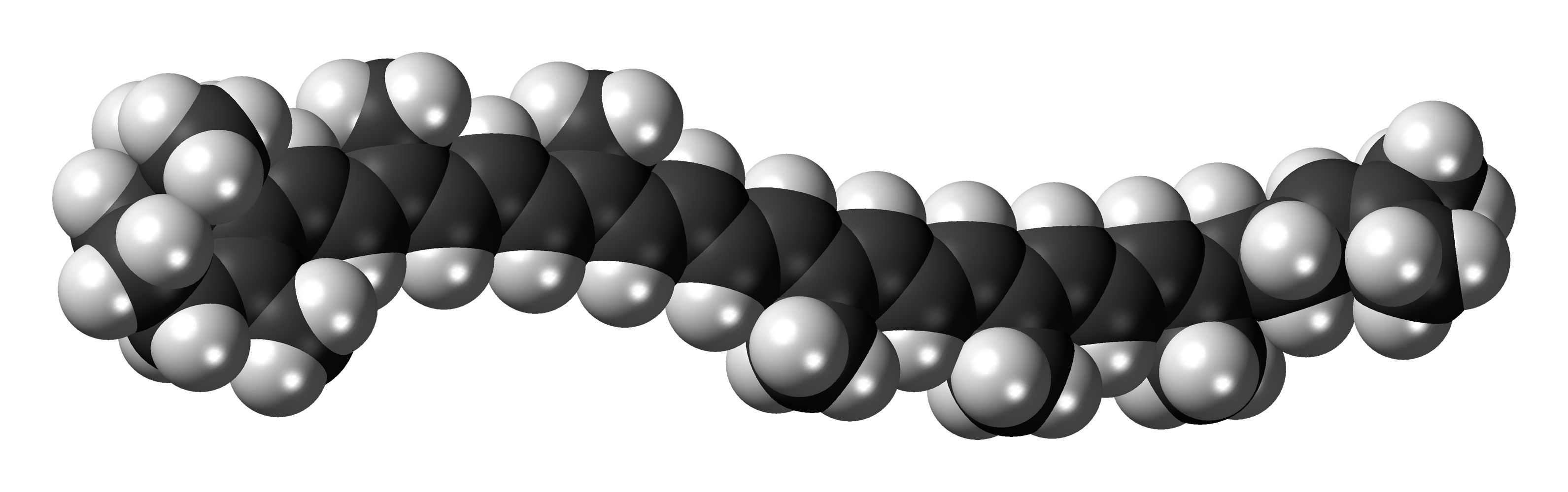 Space-filling model of the γ-carotene molecule, one of several plant dyes called carotenes. Colour code: Carbon, C: black Hydrogen, H: white